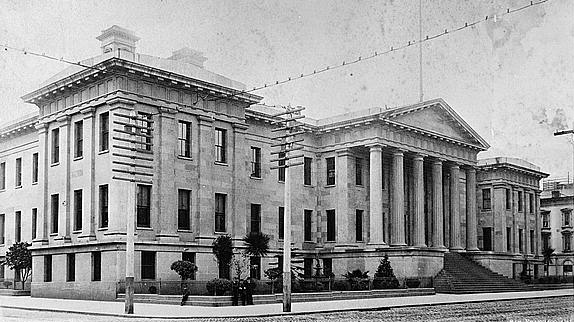 The old San Francisco Mint, Mission & Fifth Streets, San Francisco County, San Francisco, CA - view from southeast. Built in 1874.